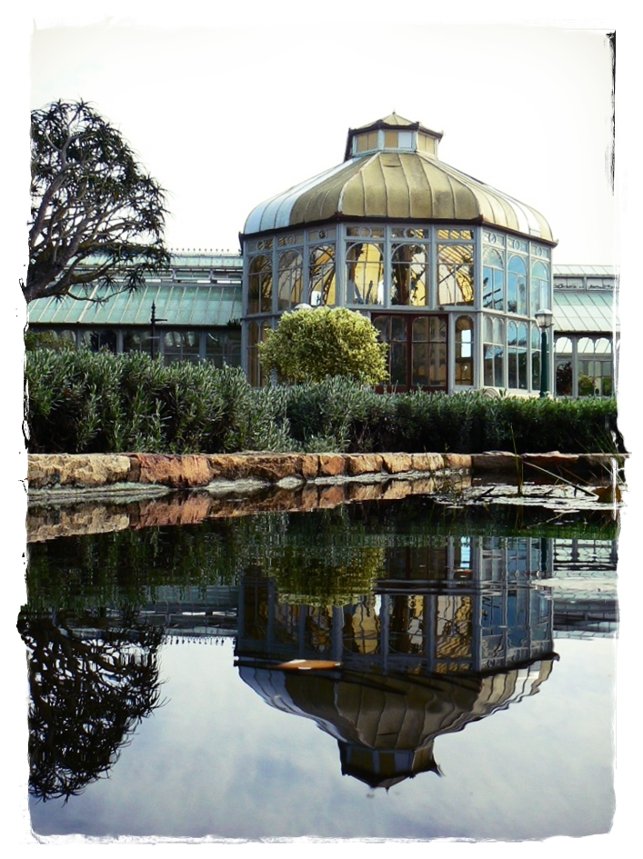 This impressive conservatory with its Victorian characteristics was designed and erected by Boyd and Son of Paisley, Scotland, dismantled into sections and transported to Port Elizabeth where it was re-erected under the supervision of Mr Frazer of Boyds. This media shows a South African Protected Site with SAHRA file reference 9/2/073/0031.